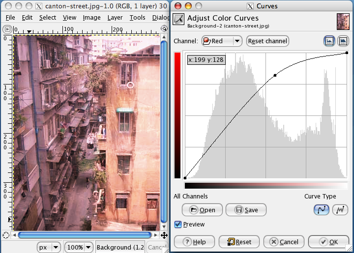 Illustration of the curves dialog in the Gimp with red emphasized